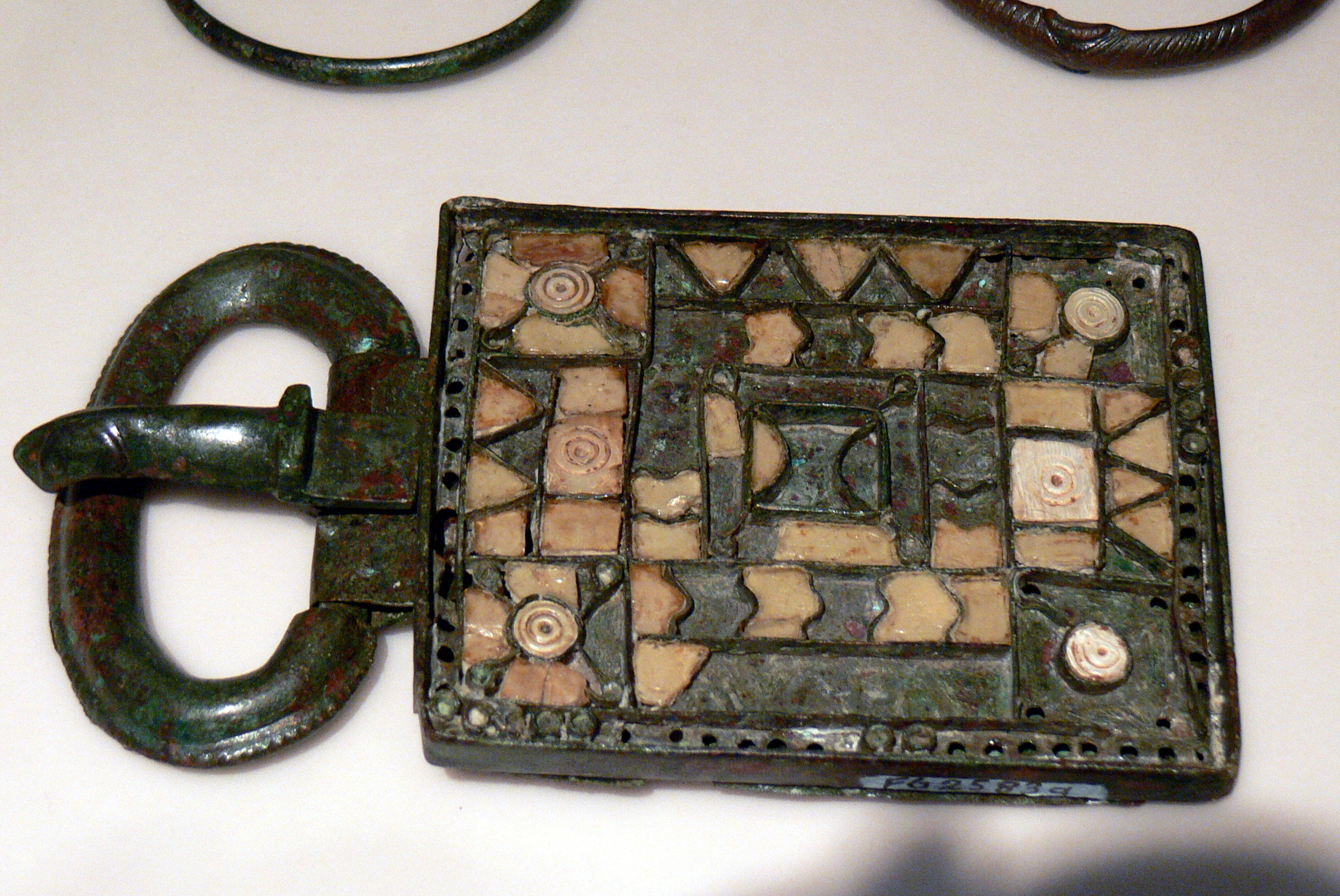 German National Museum ( Nuremberg / Germany ). Visigothic bronze belt buckle ( 6th century ), from Castiltierra, Spain.